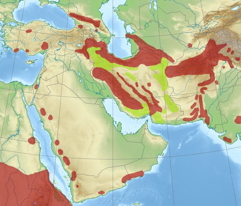 Range of the Leopard in the middle east: red. Possible occurences in Iran: green. according to Igor Khorozyan: Research and Conservation of the Persian Leopard (Panthera pardus saxicolor) in Bamu National Park, Faris Province, Iran. Yerevan, May 2008 Henschel, P., Hunter, L., Breitenmoser, U., Purchase, N., Packer, C., Khorozyan, I., Bauer, H., Marker, L., Sogbohossou, E. & Breitenmoser-Wursten, C. 2008. Panthera pardus. In: IUCN 2011. IUCN Red List of Threatened Species. Version 2011.2. . Downloaded on 06 May 2012.